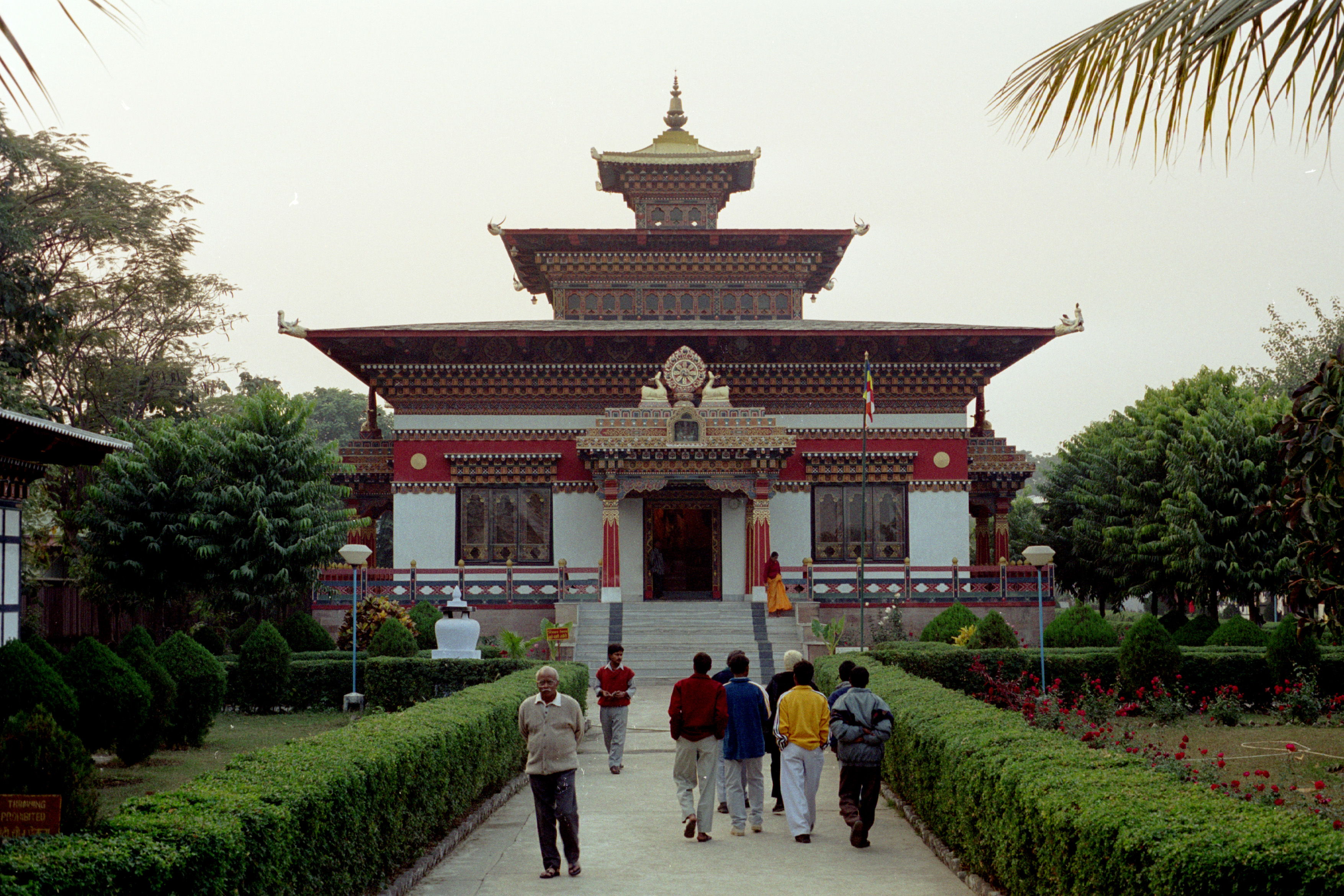 Bhutanese temple, Bodh Gaya, Bihar, India